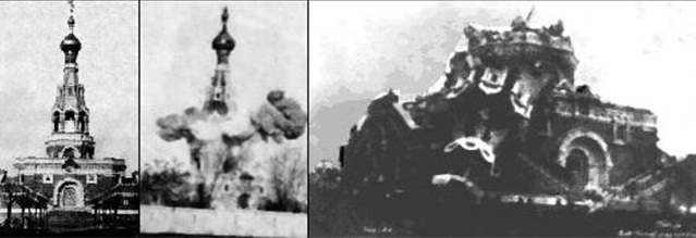 The first Turkish film, Demolition of the Russian Monument in San Stefano filmed by the first Turkish filmmaker Fuat Uzkınay in 14th November 1914 in Yeşilköy, Istanbul, TurkeyTürkçe: İlk Türk filmi Ayastefanos'taki Rus Abidesinin Yıkılışı, ilk Türk Sinemacısı Fuat Uzkınay tarafından, 14 Kasım 1914'te, Yeşilköy, İstanbul, Türkiye'de çekilmiştir.